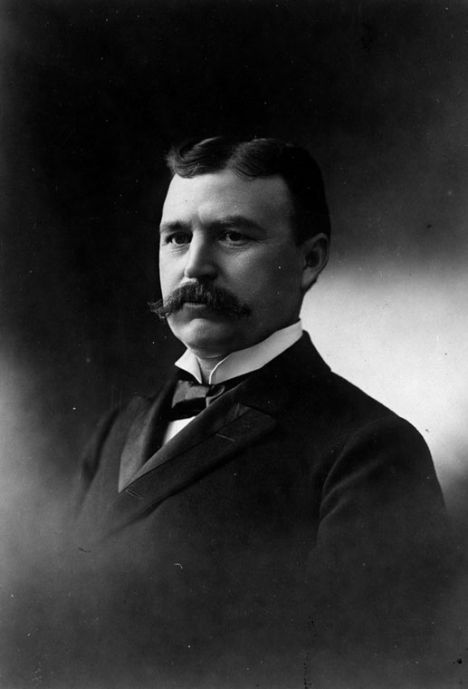 Portrait of Frank Rader, Mayor of Los Angeles from 1894-1895.